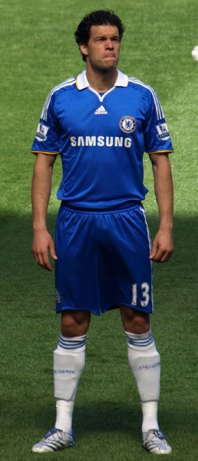 Michael Ballack